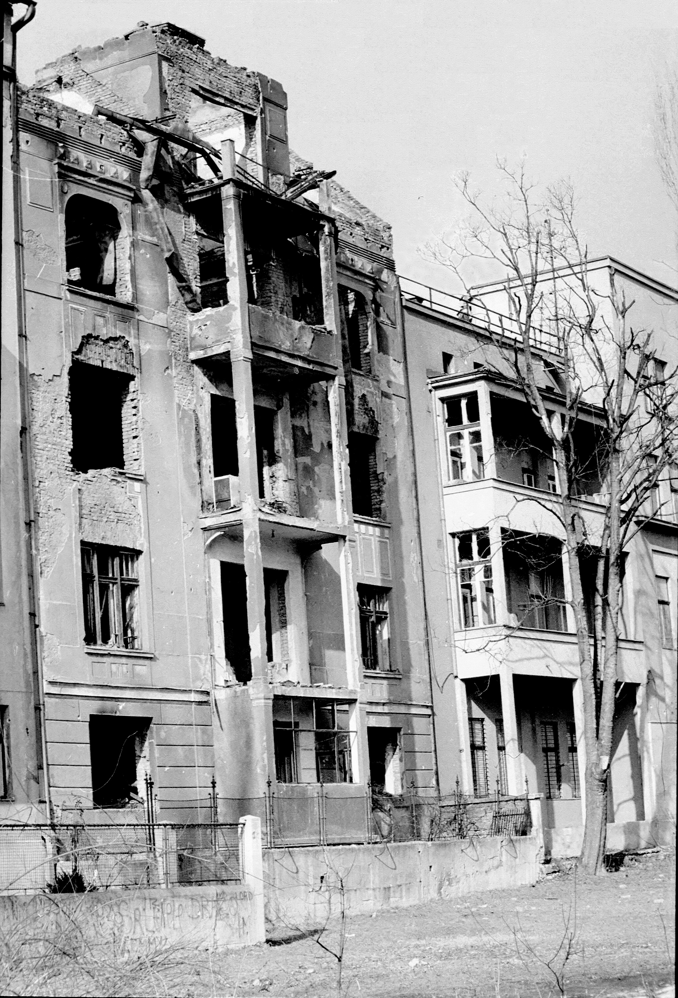 Sarajevo life under siege, autumn 1992. By the end of 1993 the vast majority of Sarajevo's buildings had been hit by shells from Serb positions in the surrounding hills. Total number of buildings destroyed in the siege: 35,000. Christian Maréchal photo